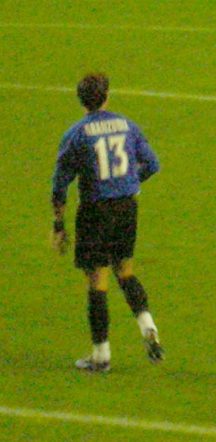 Athletic Club's goalkeeper Dani Aranzubía. Athletic Club de Bilbao - Real Club Celta de Vigo SAD football match in San Mamés Cathedral, Bilbao, Biscay, Spain. Taken from Grada Norte / Grada de la Misericordia.